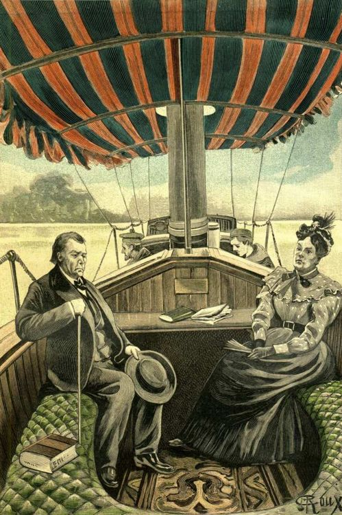 An illustration from Jules Verne's novel "The Will of an Eccentric" (1899) drawn by George Roux.